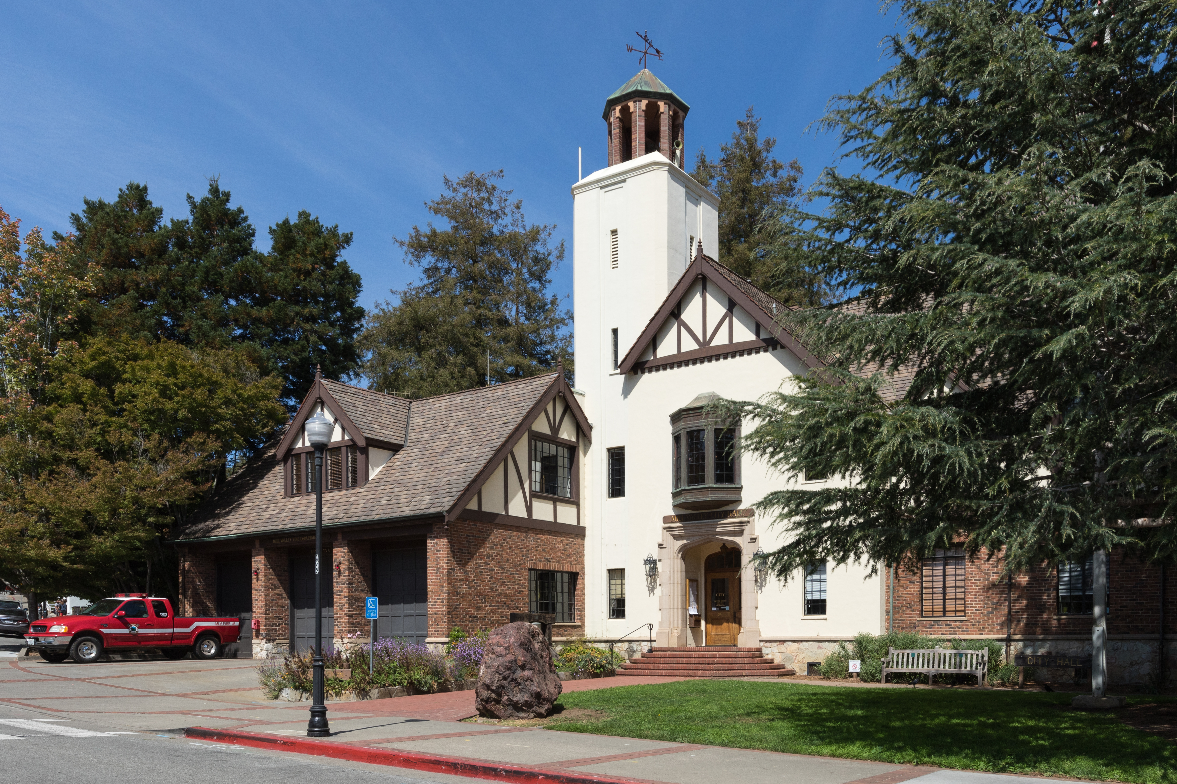 City Hall of Mill Valley, Marin County, California, in September 2016